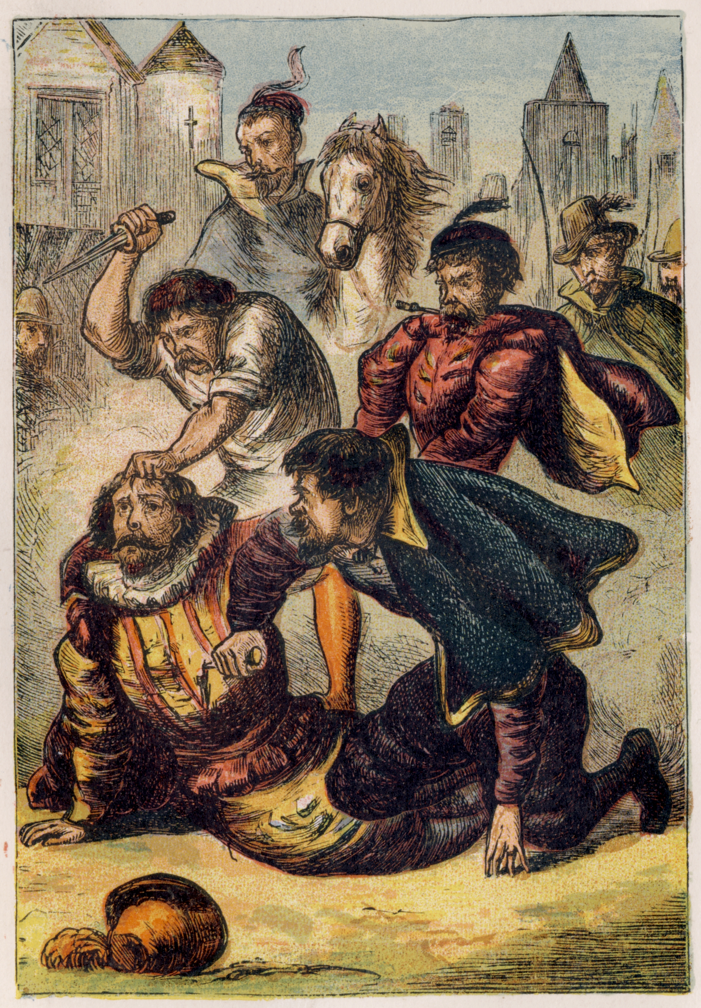 "Assassination of [Duke Pierre de] la Place", from an 1887 copy of Foxe's Book of Martyrs illustrated by Kronheim.